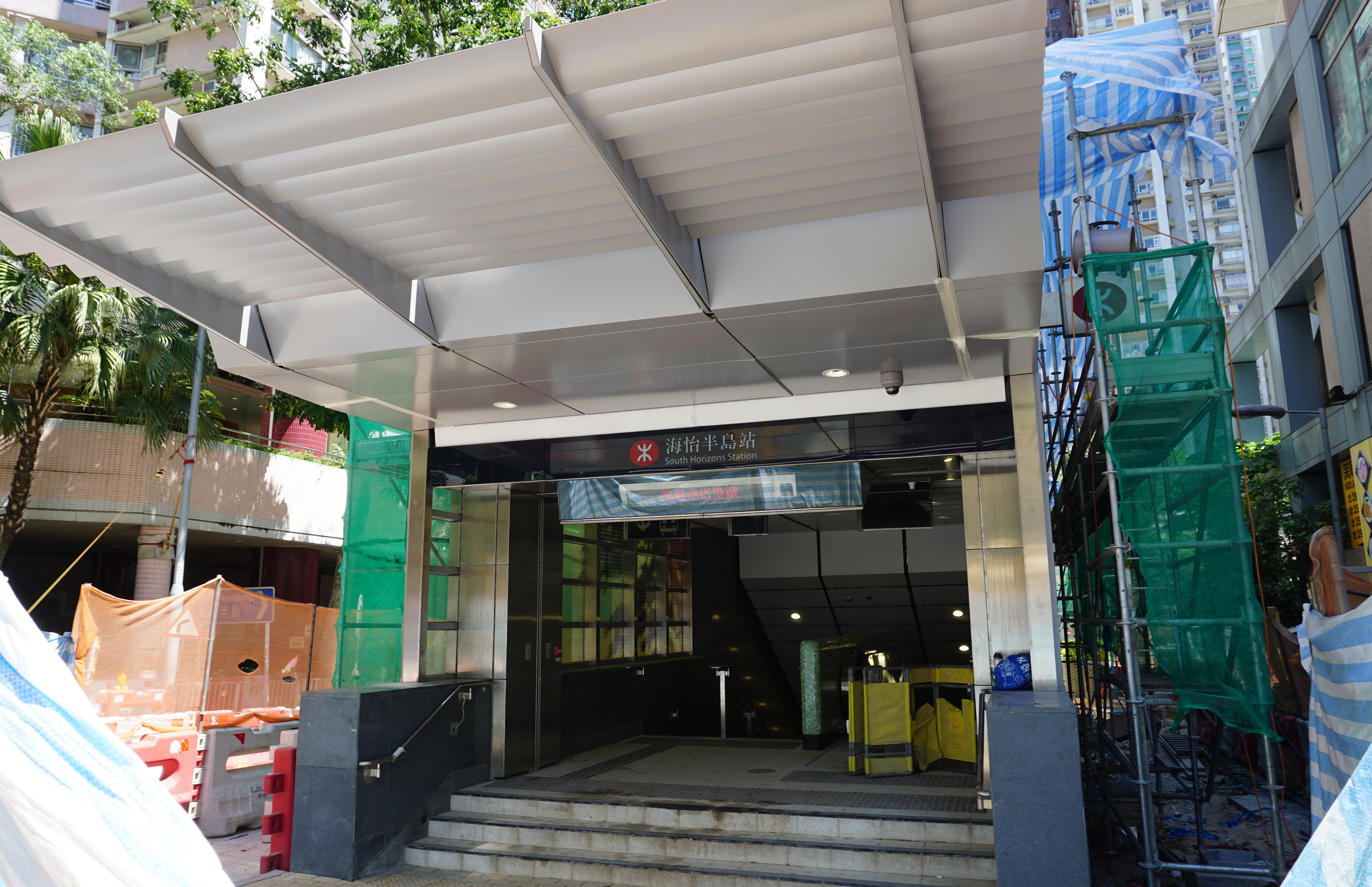 South Horizons Station in Ap Lei Chau, Hong Kong.